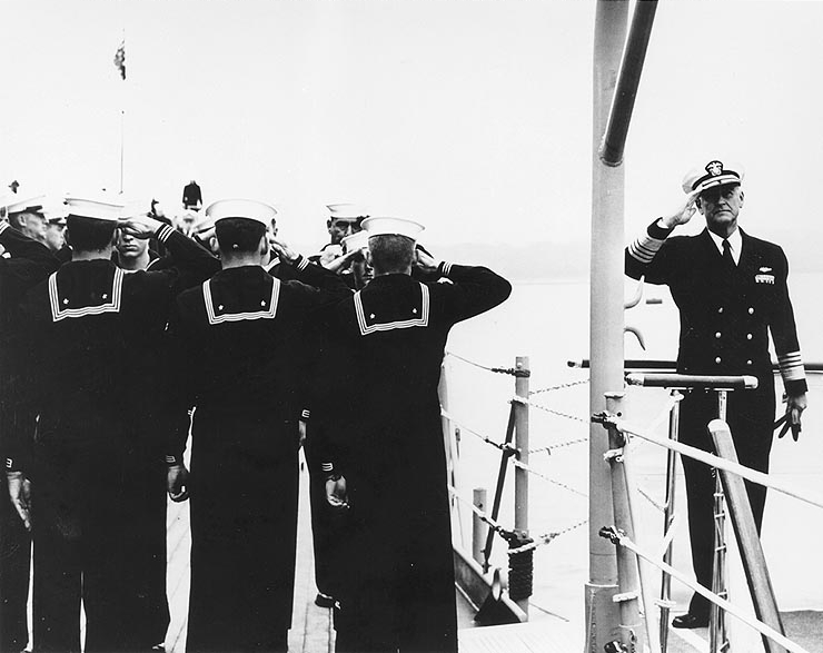 Vice Admiral Lynde D. McCormick, U.S. Navy, Commander in Chief, Atlantic, receives honours as he boards the heavy cruiser USS Columbus (CA-74) at Oslo, Norway, during the NATO "Operation Mainbrace", 20 September 1952.